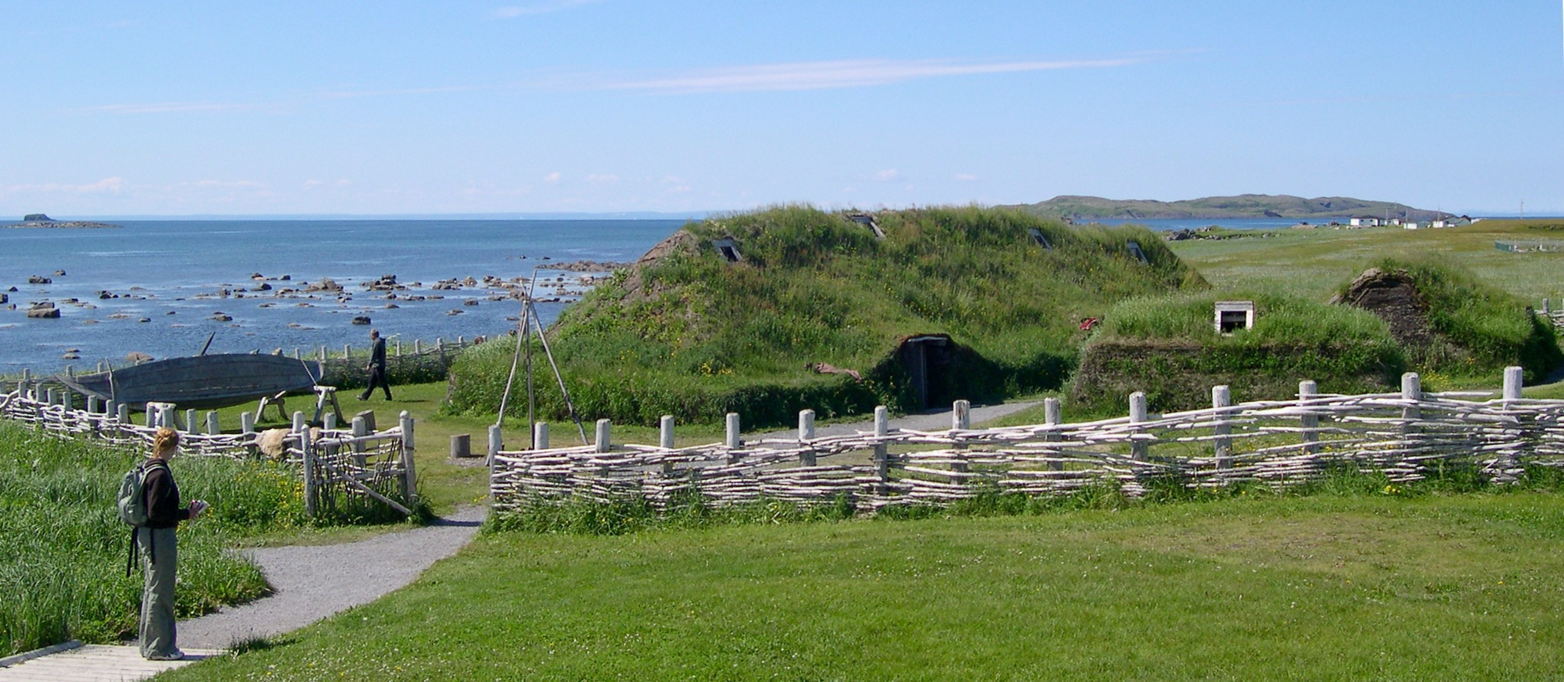 cropped version of File:Authentic Viking recreation.jpg